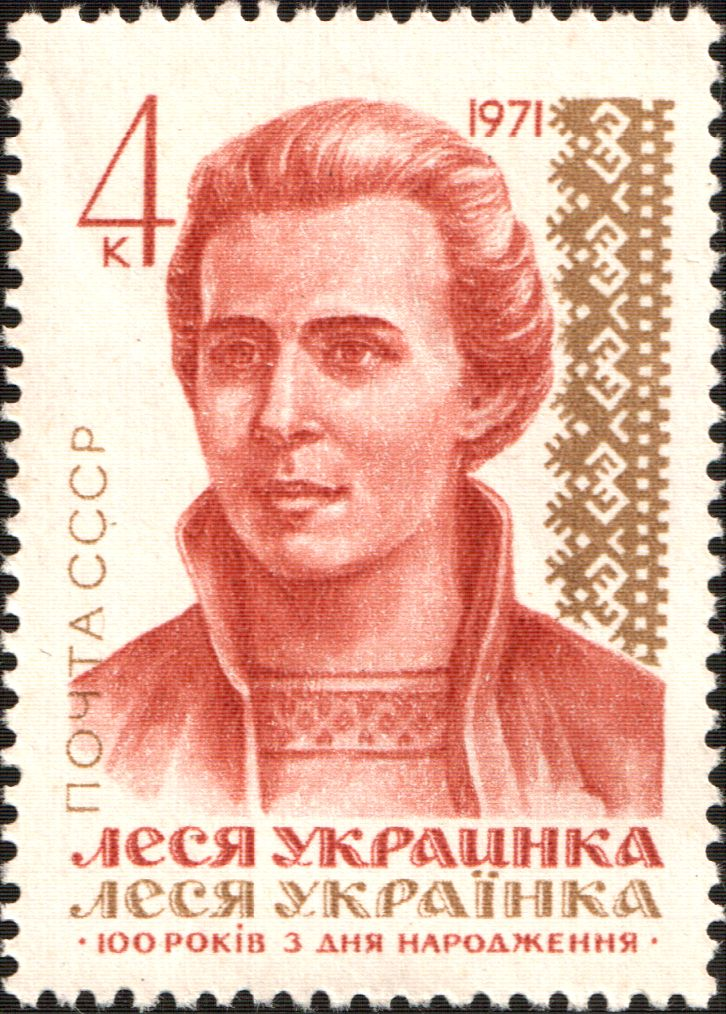 USSR stampː Lesya Ukrayinka (Larysa Petrivna Kosach-Kvitka, 1871-1913), Ukrainian Writer. Seriesː Famous Writers of our Homeland. To Birth Centenary